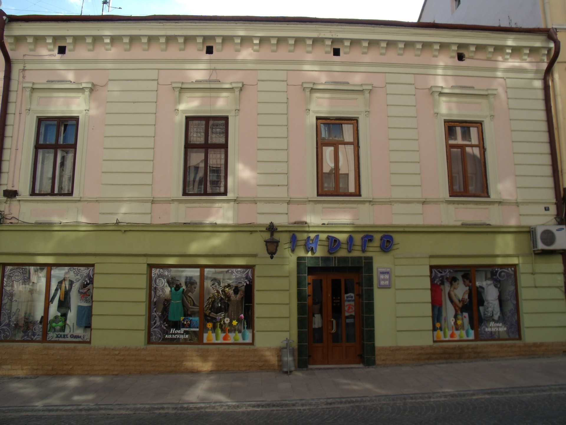 Chernivtsi, Kobylianska house 15